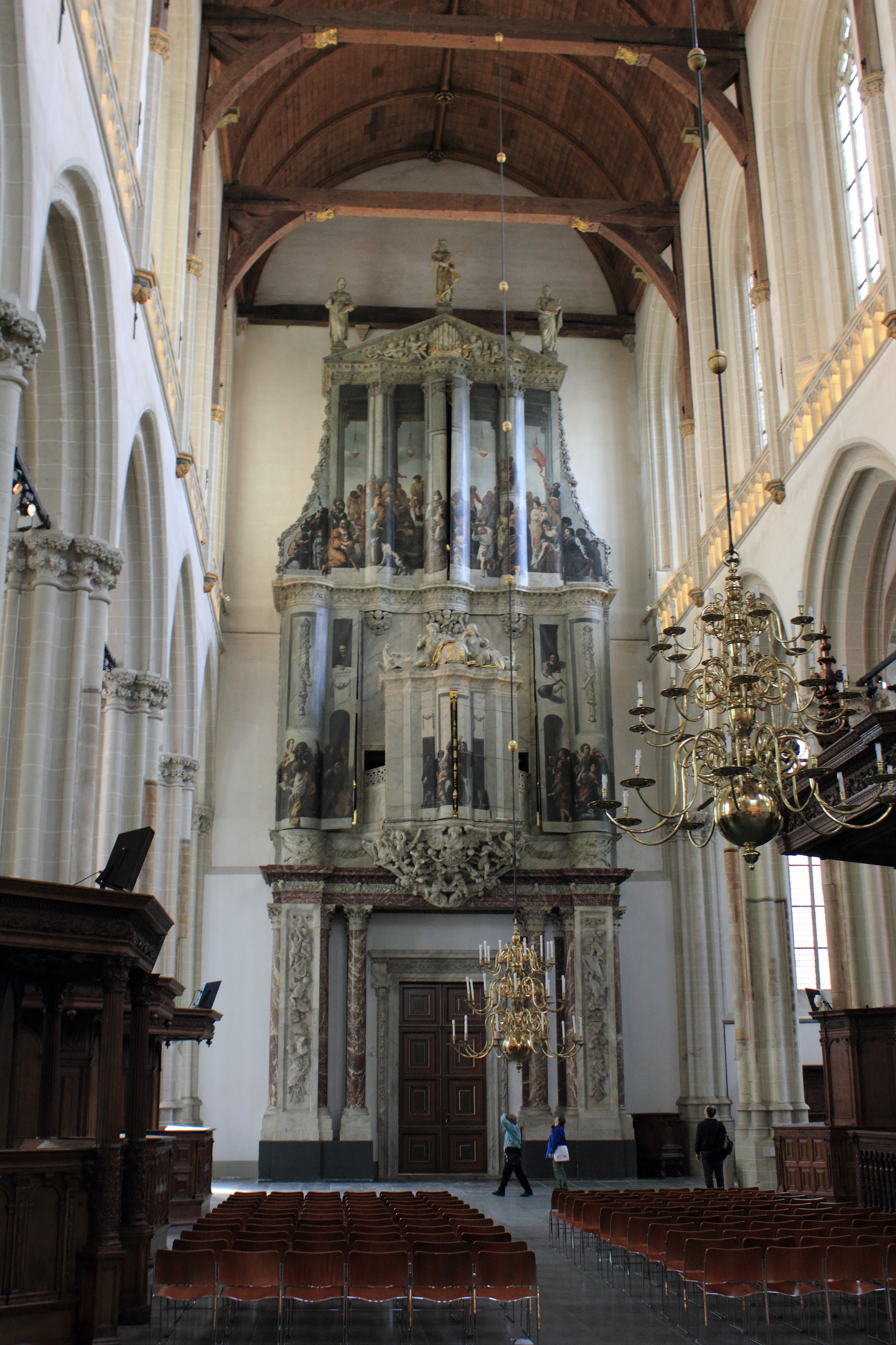 Interior of the Nieuwe Kerk (Amsterdam)